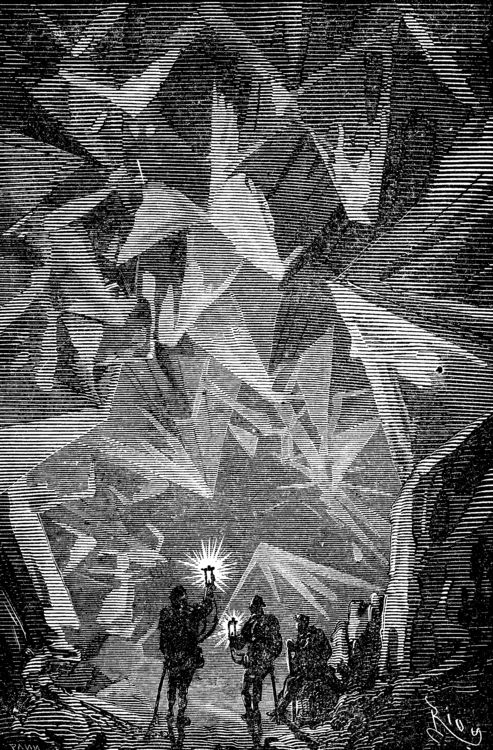 An ilustration from the novel "Journey to the Center of the Earth" by Jules Verne painted by Édouard Riou.